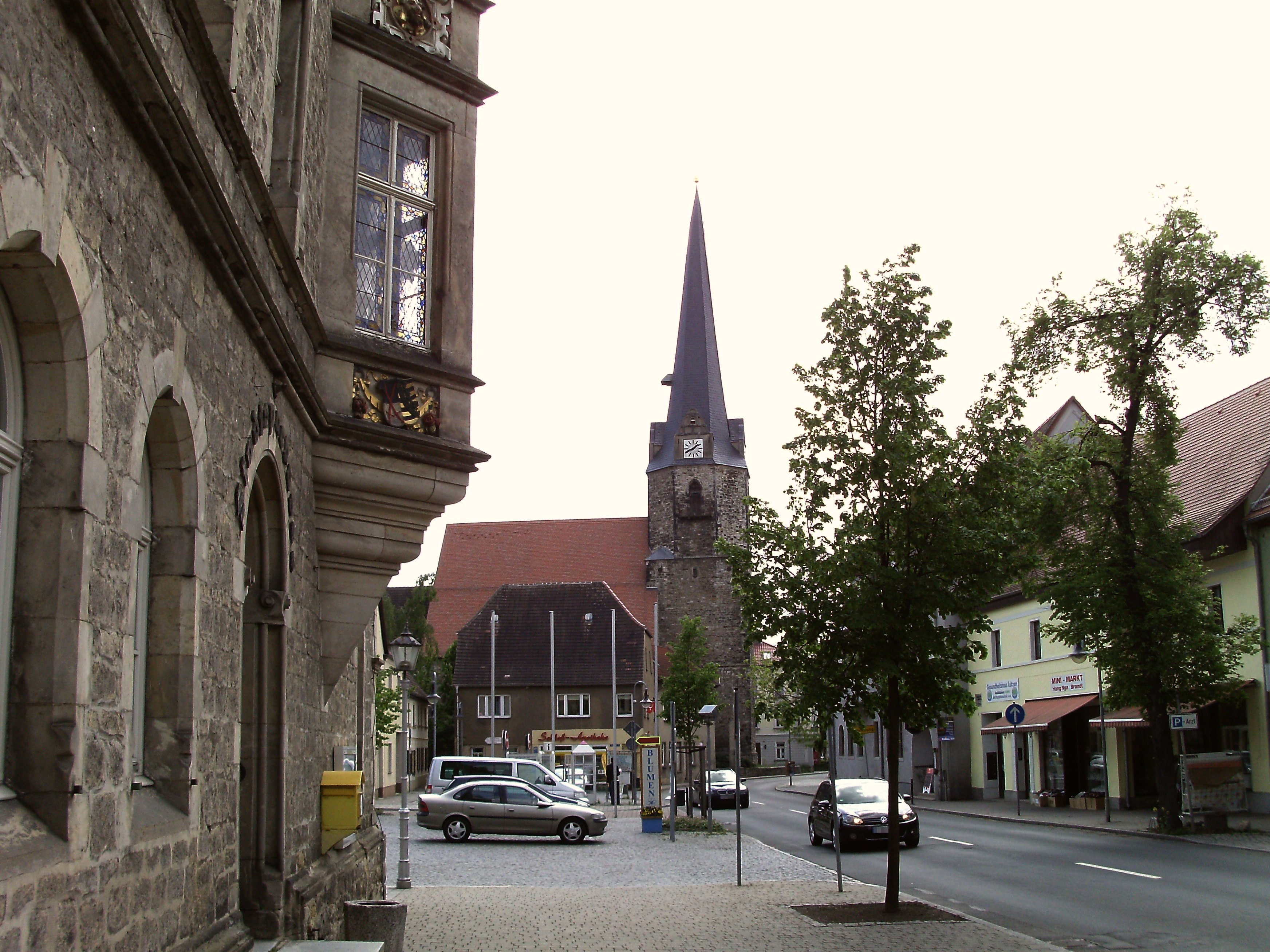 View of St. Vitus Church in Lützen (district of Burgenlandkreis, Saxony-Anhalt) from the north